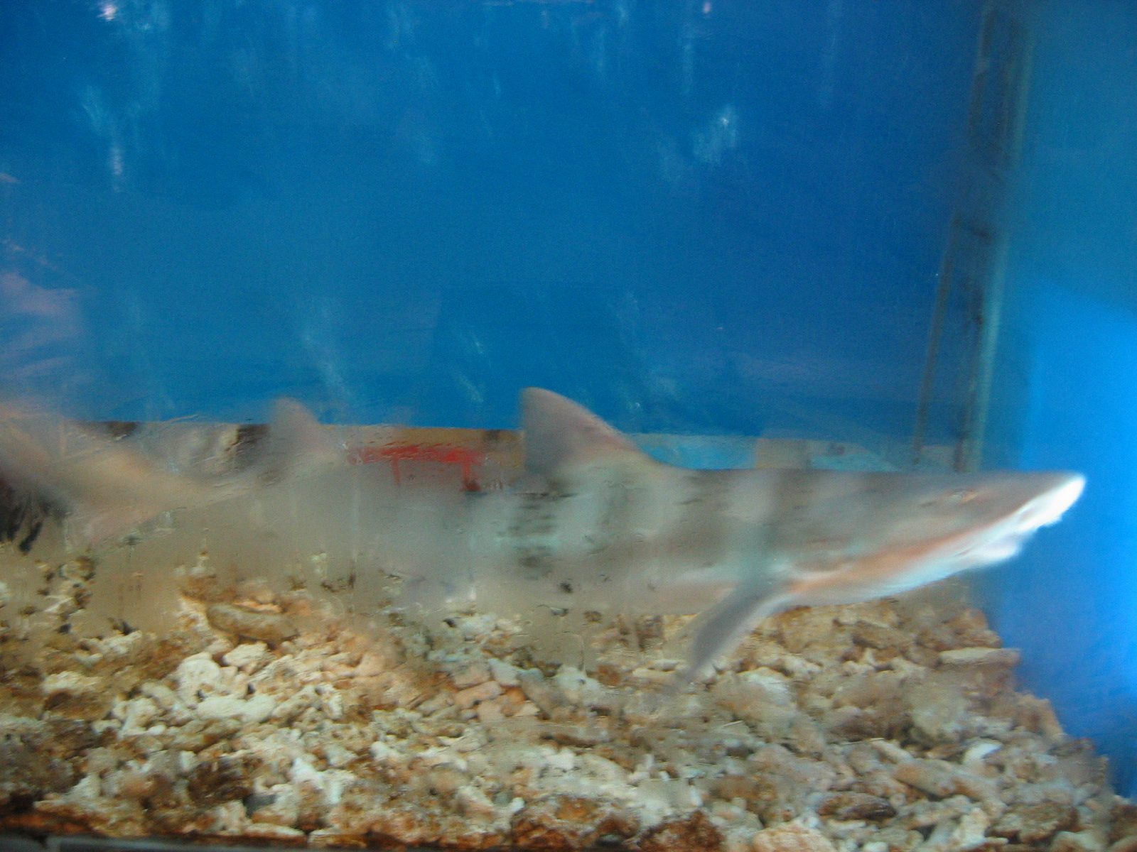 Banded houndshark (Triakis scyllium) at a restaurant in China.